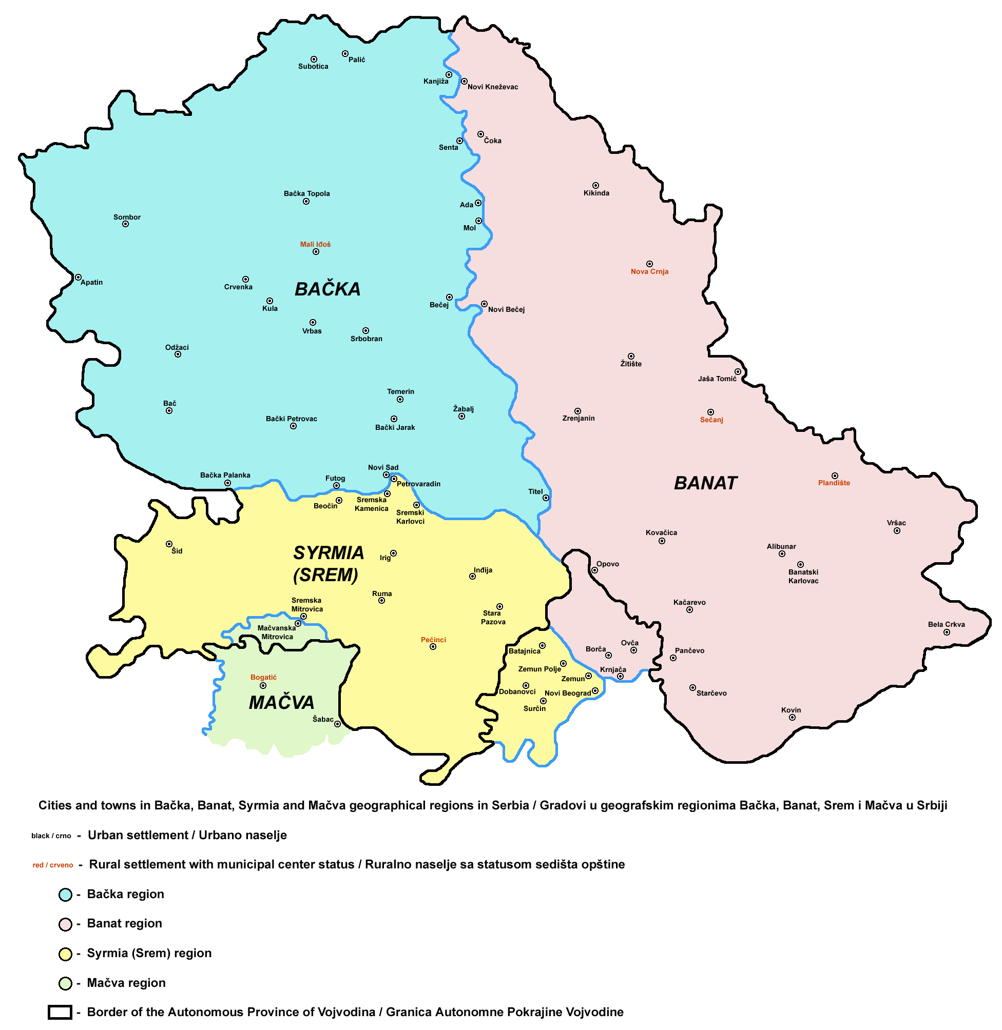 Cities and towns in Bačka, Banat, Syrmia and Mačva regions in Serbia